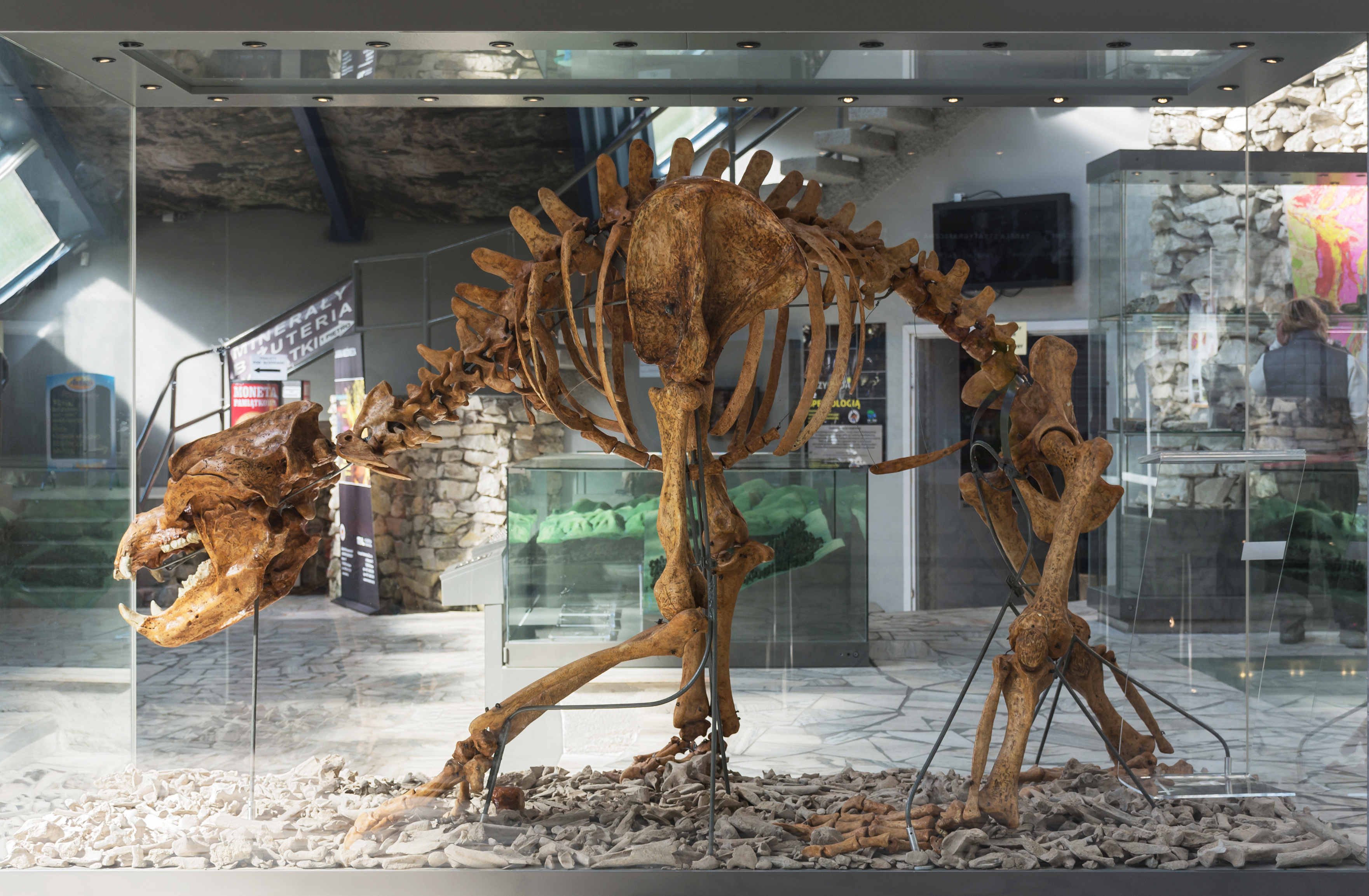 Cave Bear Ursus spelaeus – skeleton in Bear Cave in Kletno (Lower Silesia, Poland) This is a photography of Natura 2000 protected area with ID PLH020016